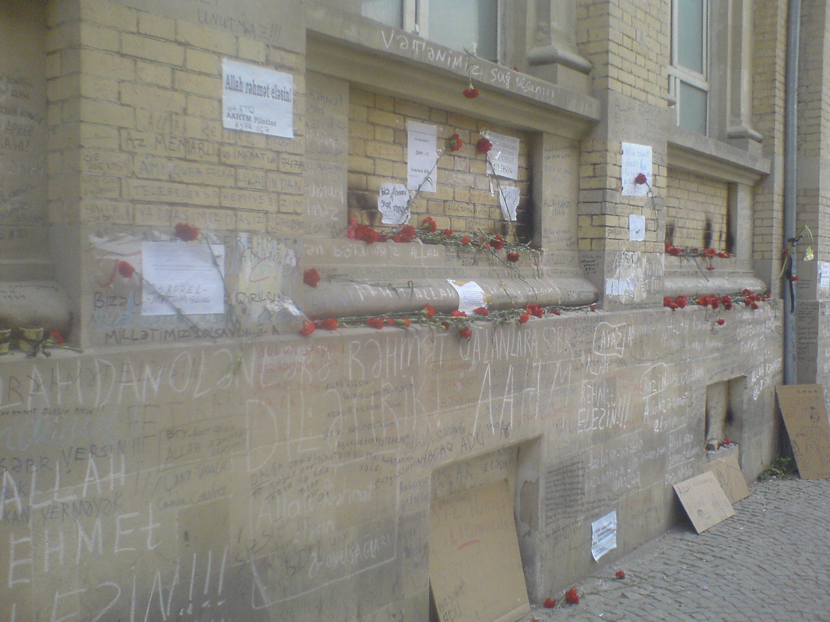 Wall of ASOA after terror act of 30th April 2009